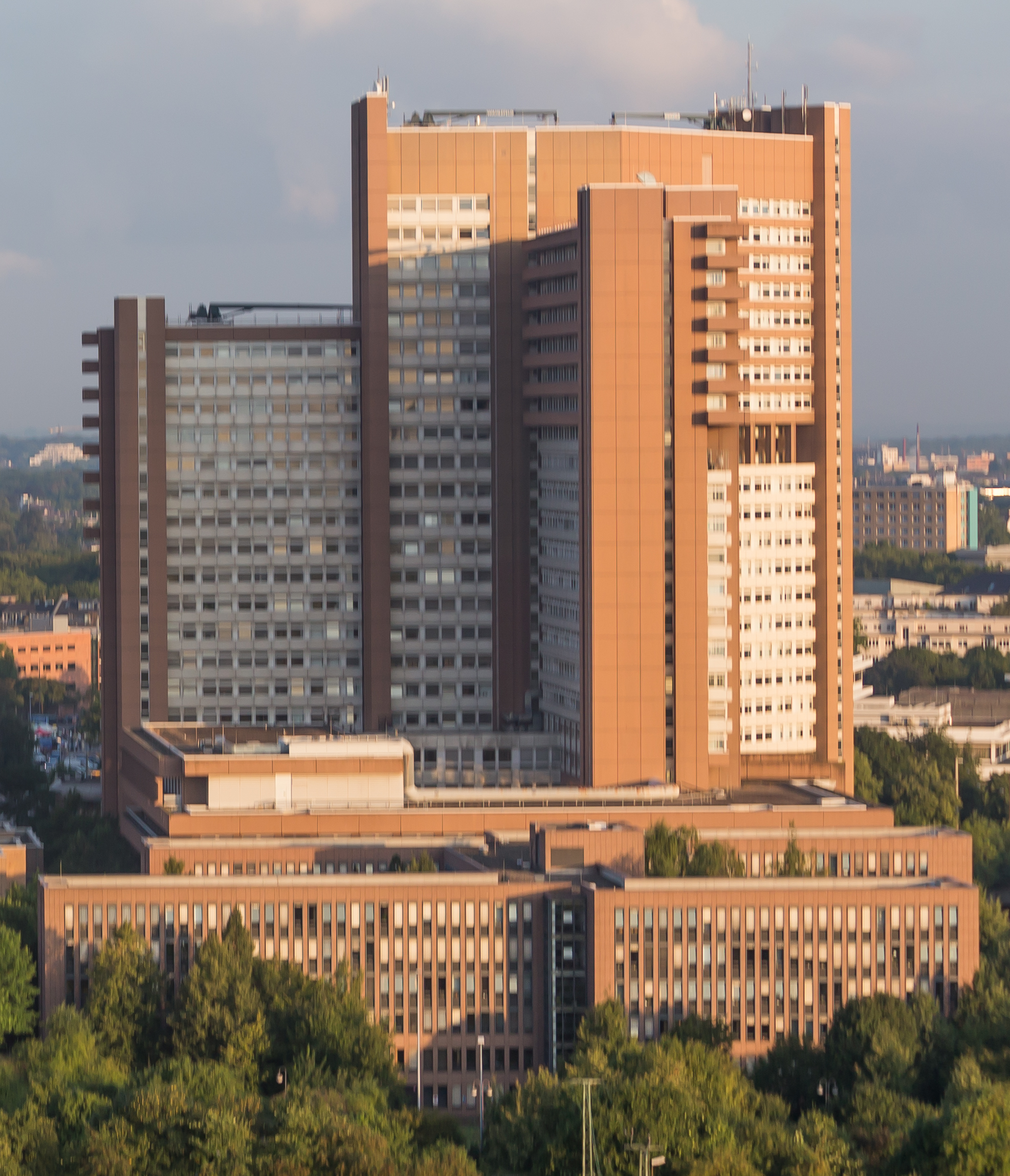 Hot air balloon trip across Cologne